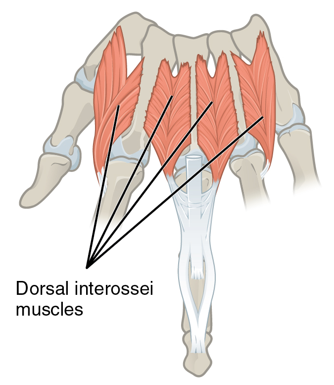 Based off: Based off